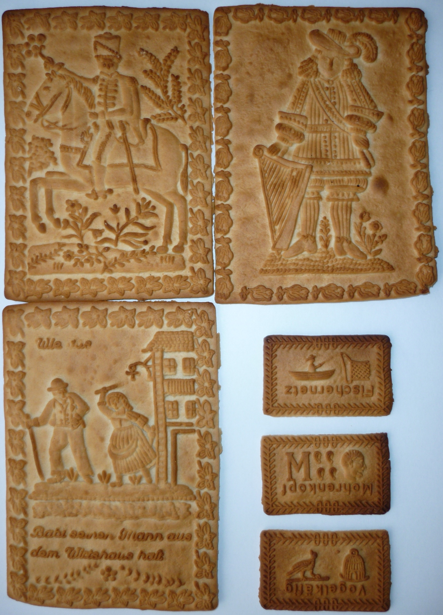 "Züri Tirggel" cookies made with old models